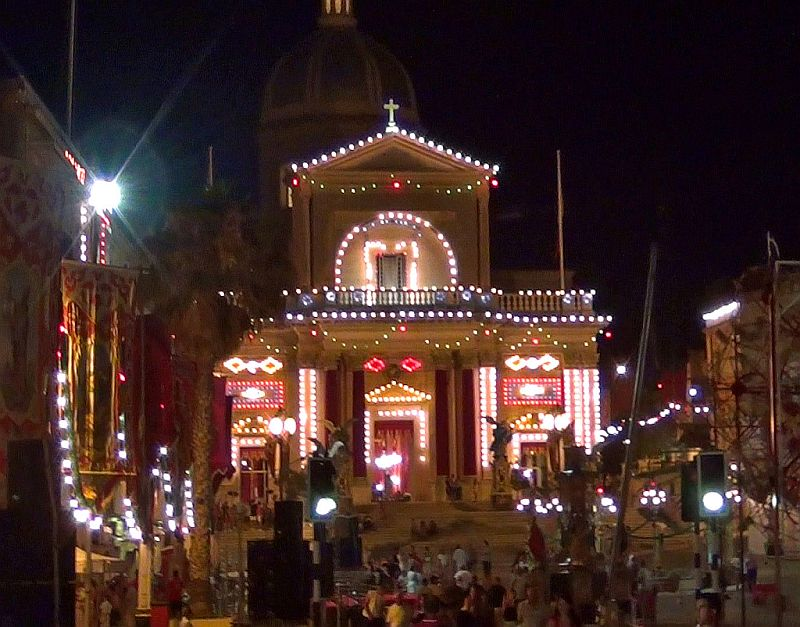 Kalkara parish church during the festa